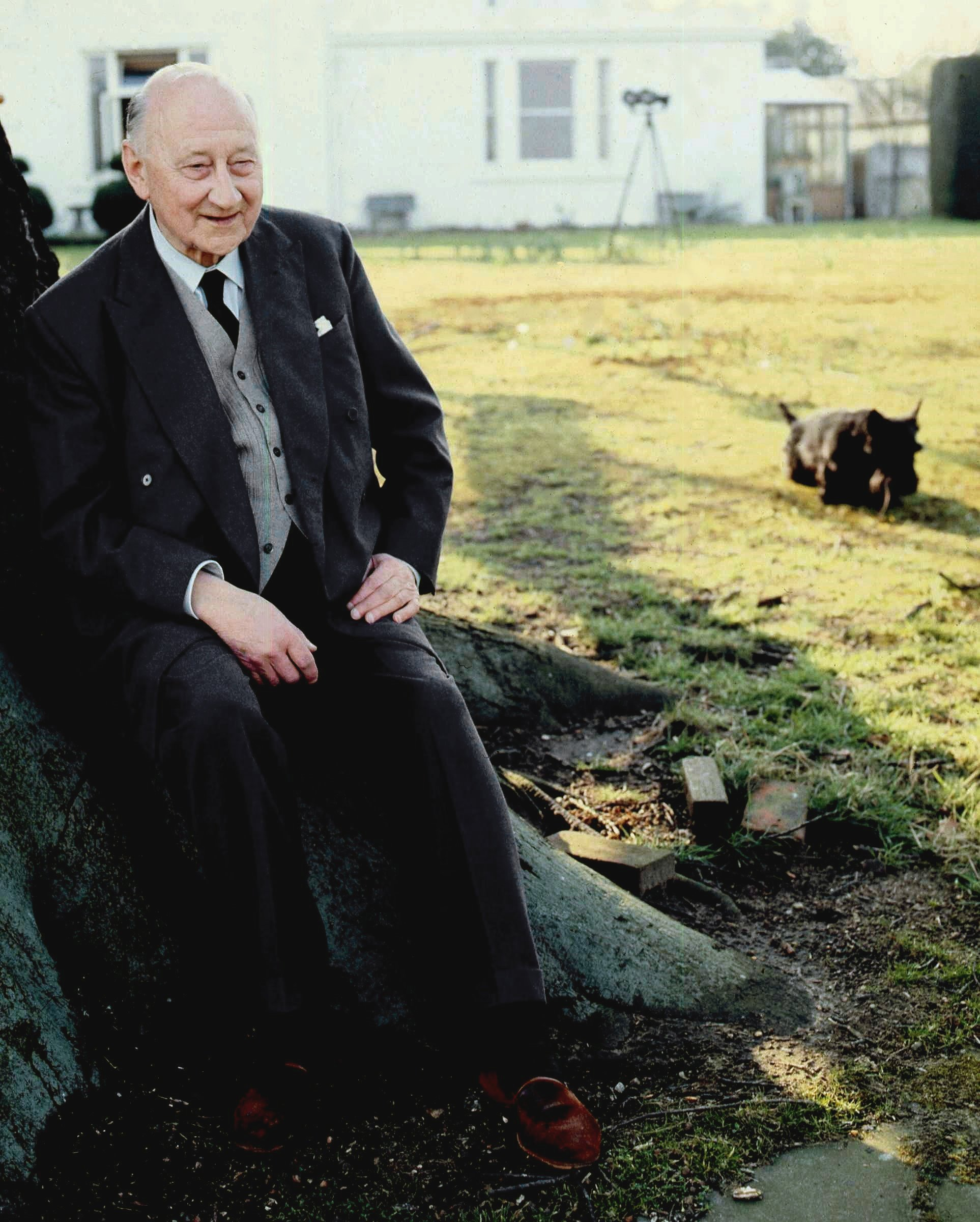 portrait of Sir Felix Aylmer